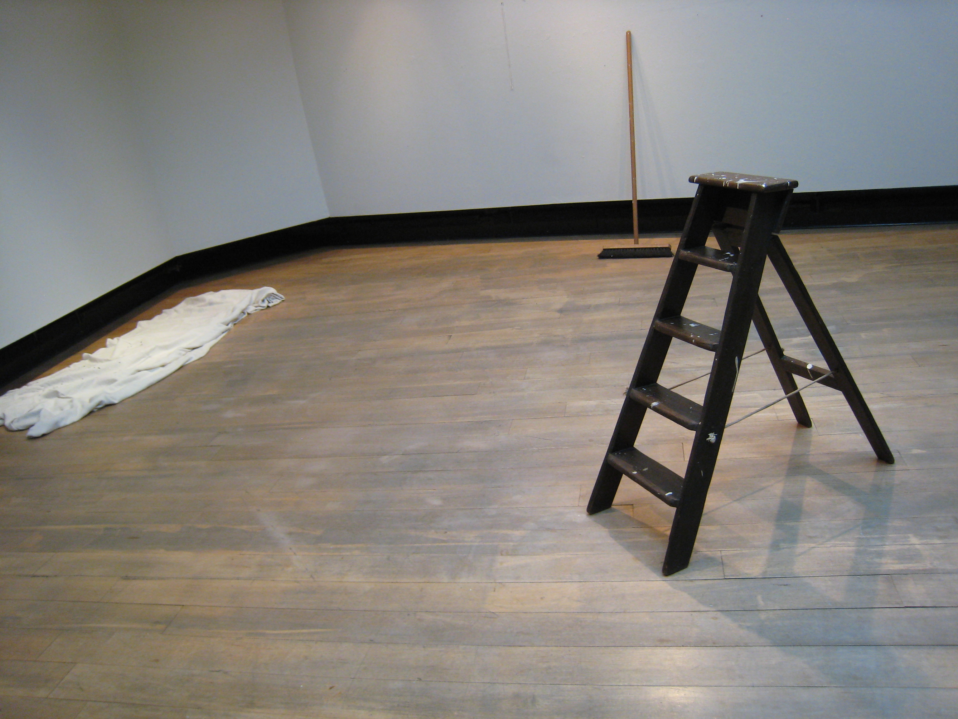 Part of the 2017 exhibition "When we loved you best of all" by Susan Collis at the Touchstones art gallery, Rochdale. Visible are 3 items of artwork: "Glory days" (2015): a cloth on the floor; "Wallflower" (2011): a broom against the wall; and "White lies" (2006): a step ladder. By zooming it is possible to see a string hanging from a screw in the wall, which is part of a set of small wall objects "Sculpture Show VI" (2017). These ordinary objects have all been modified by insetting valuable materials, only seen on close inspection.